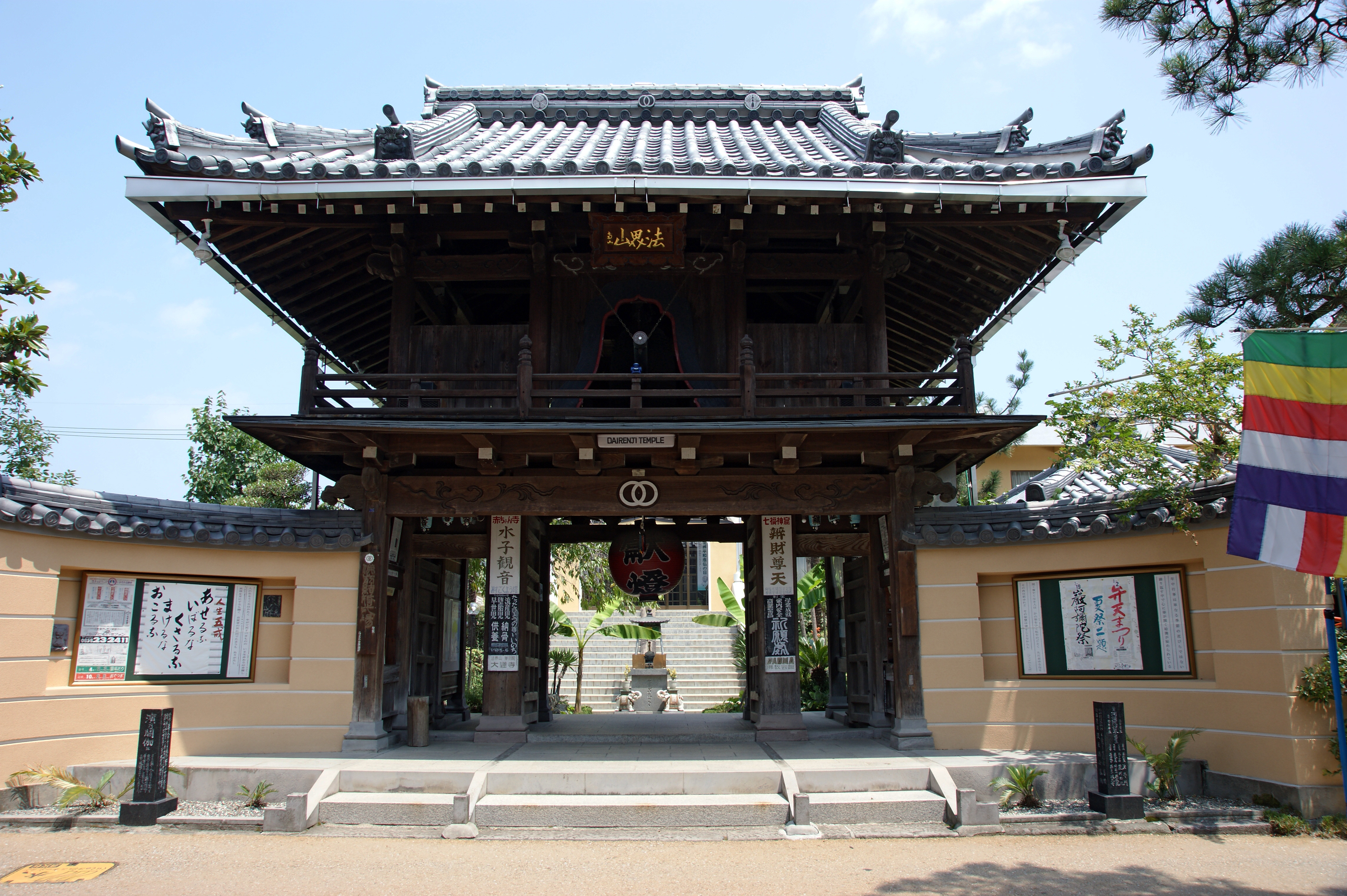 Dairenji in Kurayoshi, Tottori prefecture, Japan